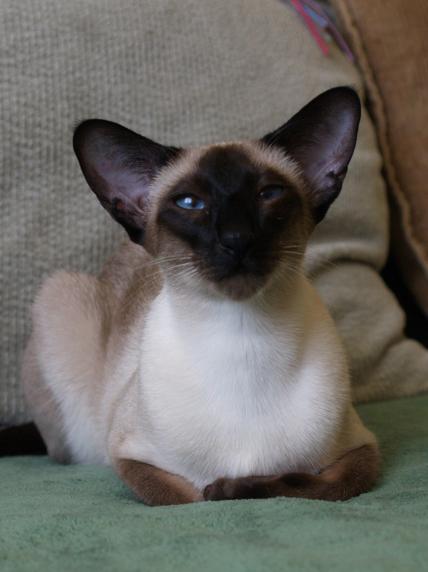 Seal point siamese cat, Arwa Fairouz BasbousaCZ